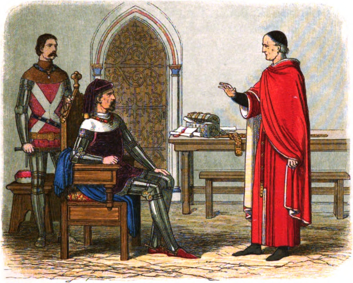 William Gascoigne, Chief Justice during Henry IV's reign, refuses to allow the king to pass sentences on bishops or peers. Doyle points out that the scarlet robes of the Chief Justice was an aesthetic choice (it was not the official colour of judicial robes at that point in time).